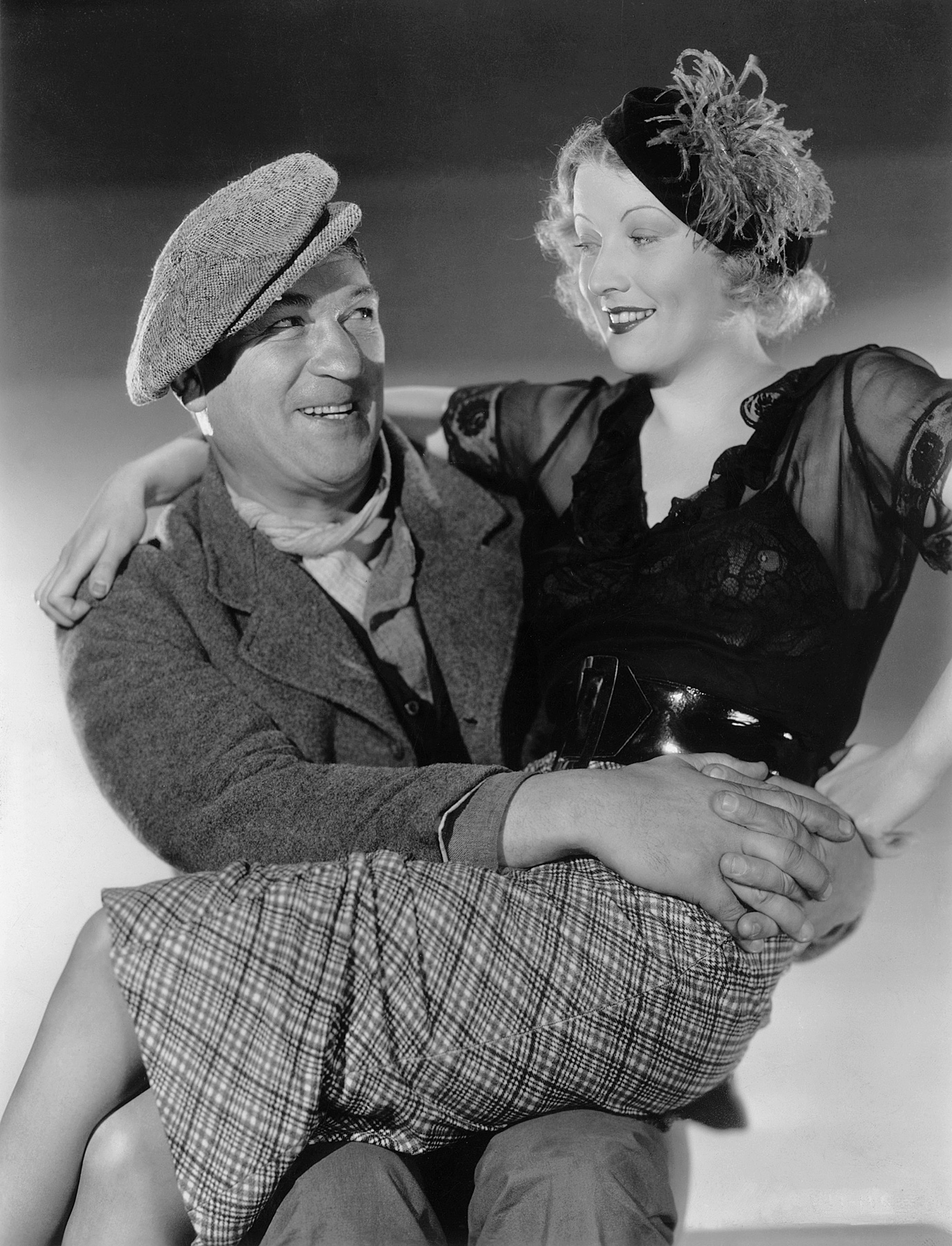 Victor McLaglen and Margot Grahame in The Informer (1935) - publicity still